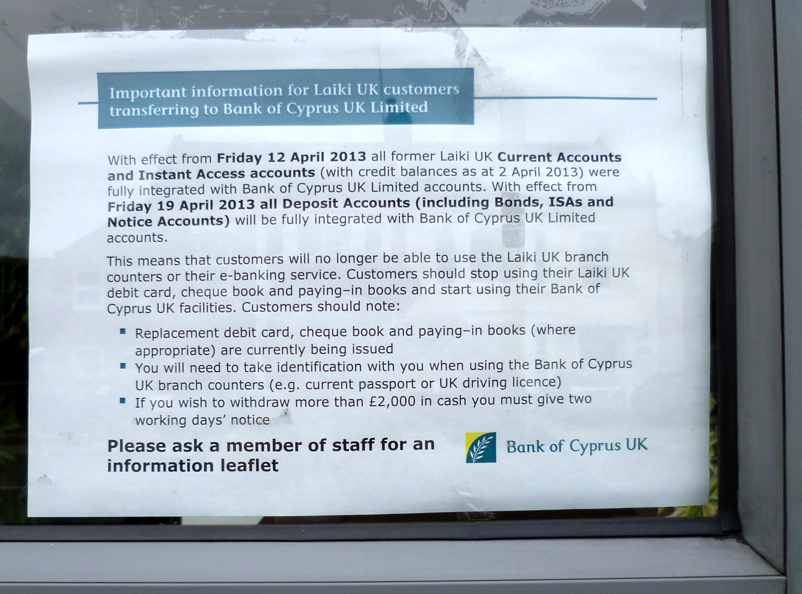 Laiki Bank closure notice, Finchley, London, 2013.